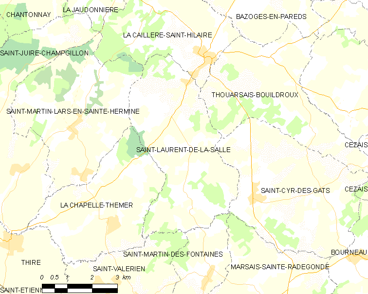 Map of French municipality Saint-Laurent-de-la-Salle